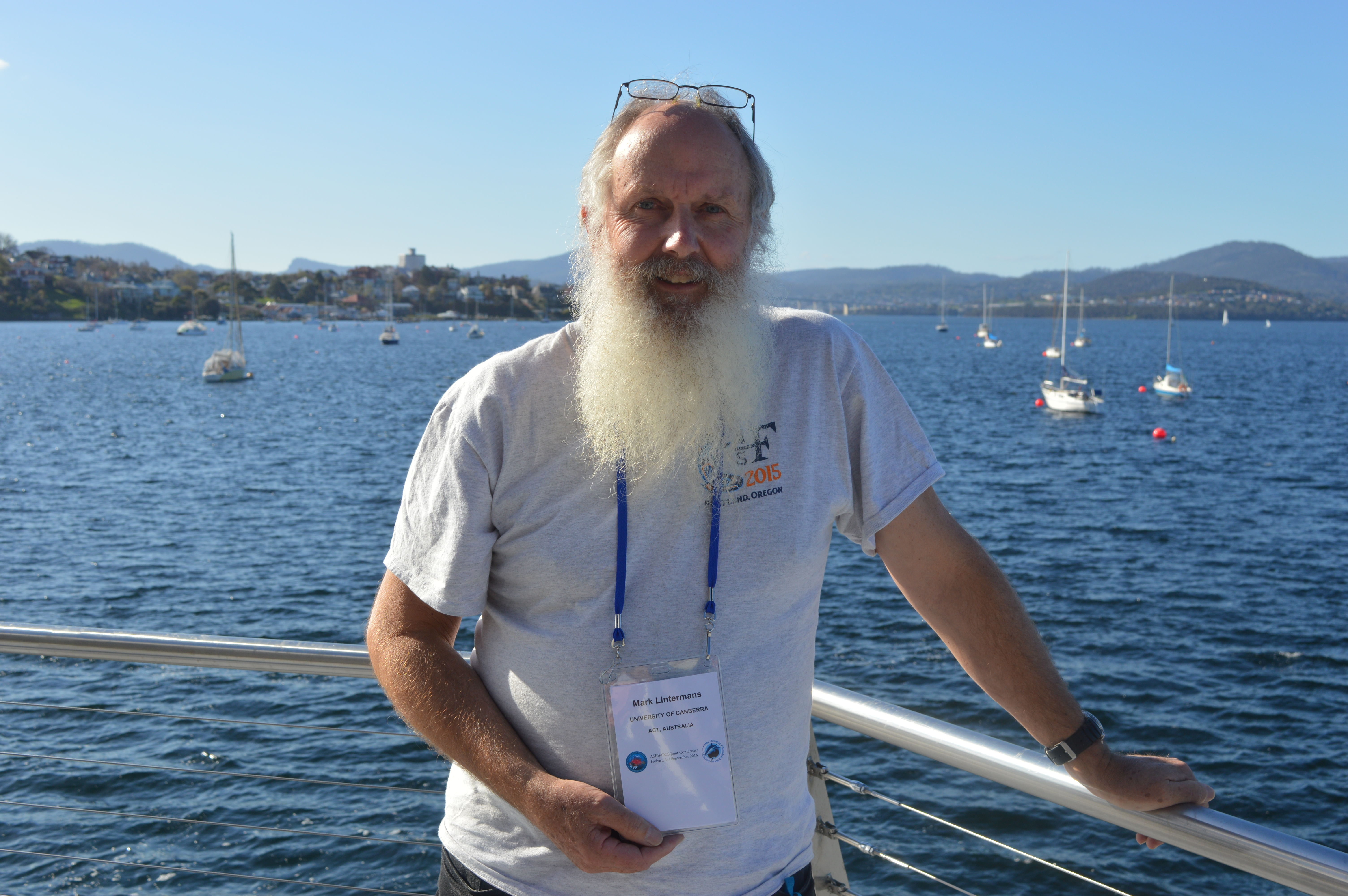 Fish biologist Mark Lintermans at the 2016 joint conference of the Australian Society for Fish Biology and Oceania Chrondrichthyan Society in Hobart, Tasmania on September 7, 2016.